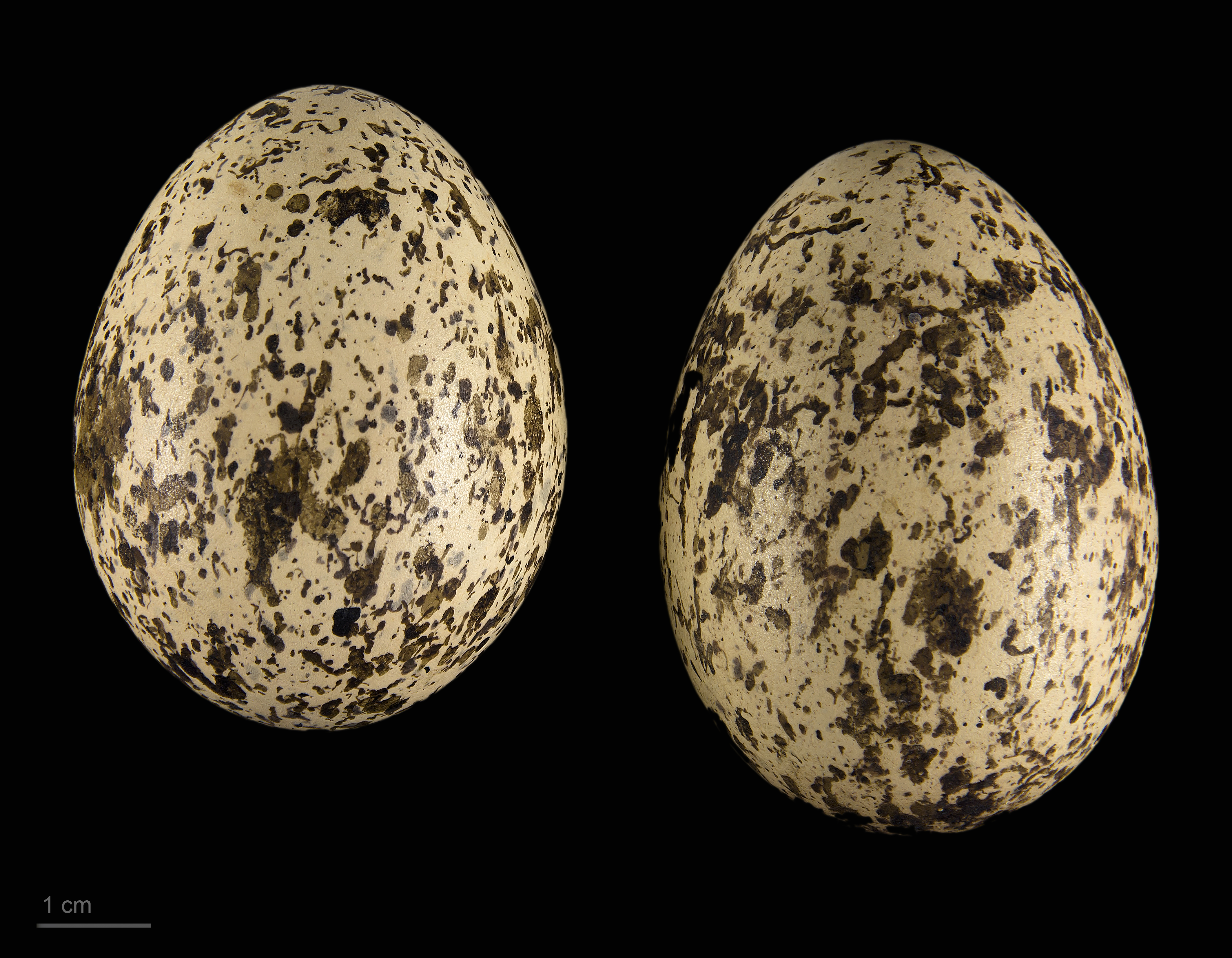 Eggs of Eurasian stone-curlew Two specimens of the same spawn ; collection of Jacques Perrin de Brichambaut.